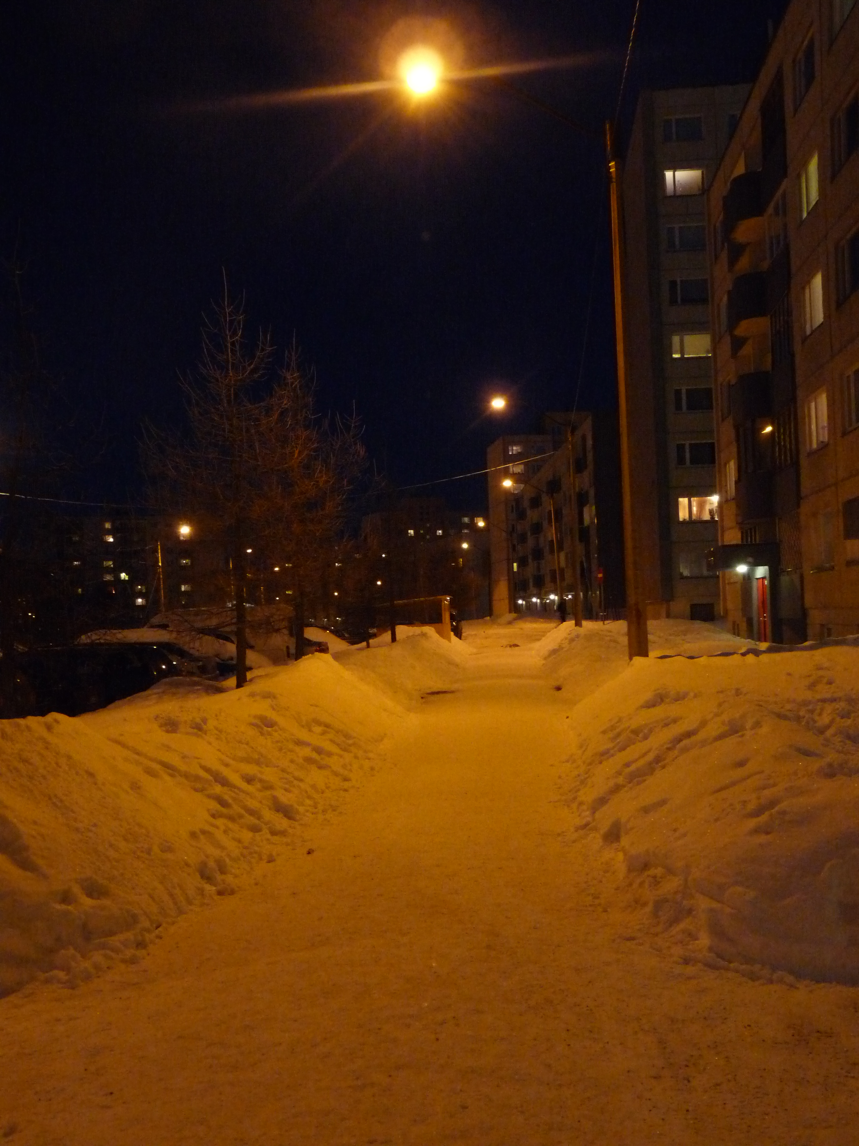 Pedestrian road in Paasiku street